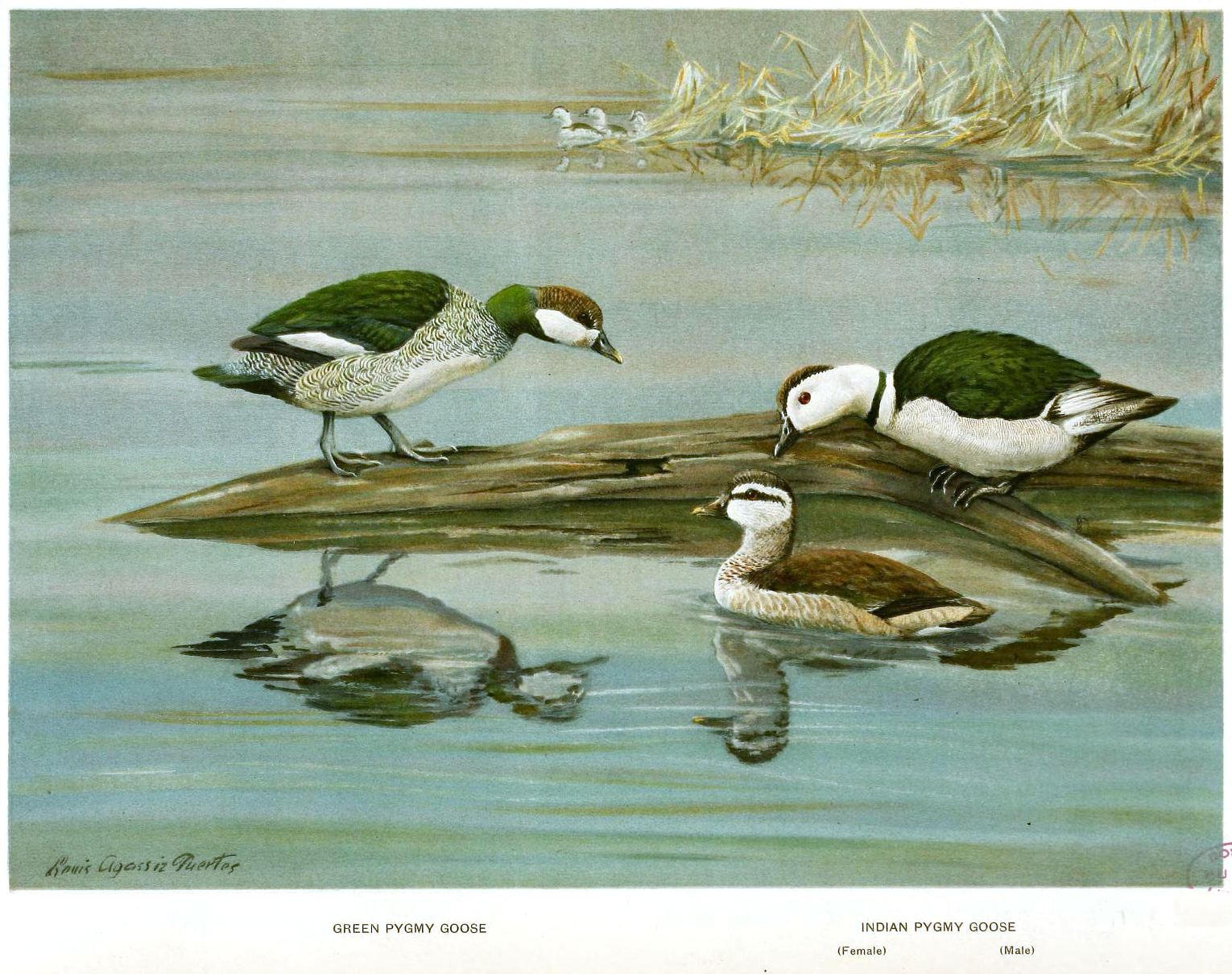 Nettapus coromandelianus and Nettapus pulchellus